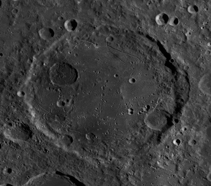 LRO image of Oppenheimer crater, on the far side of the moon, mosaic from the Wide Angle Camera (WAC).